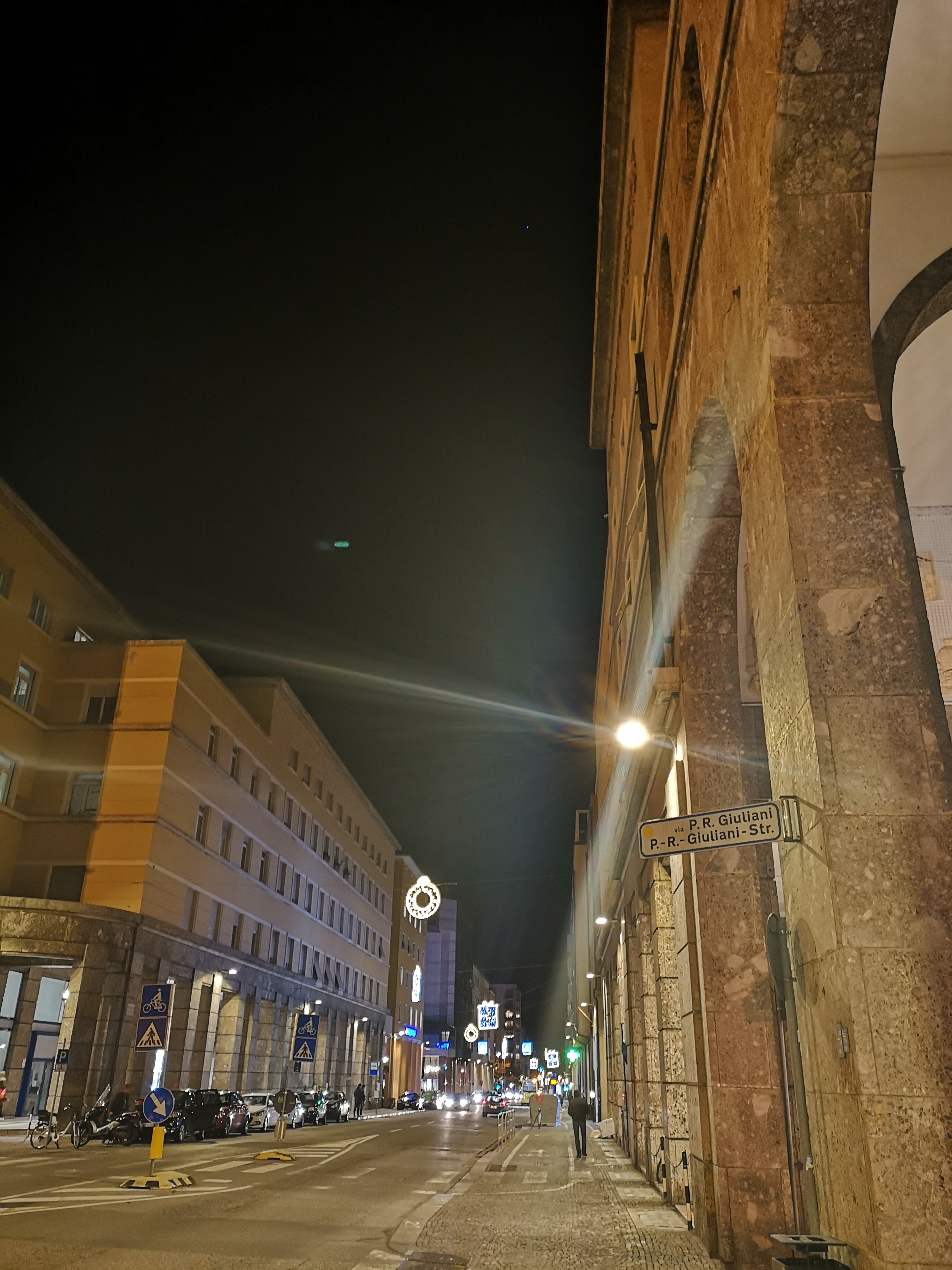 View of Bozen-Bolzano's Liberty Boulevard 2019